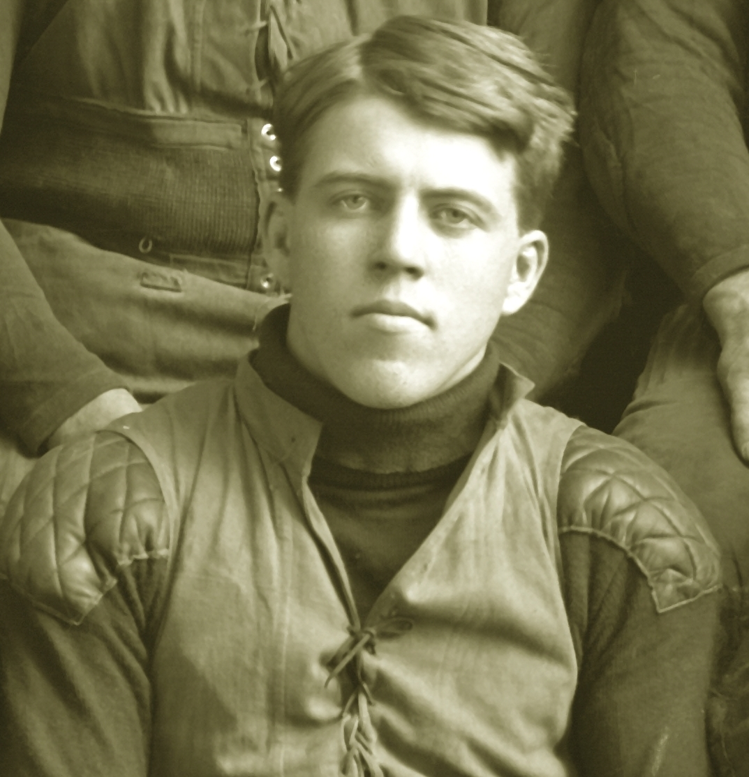 Photograph of Fred Norcross